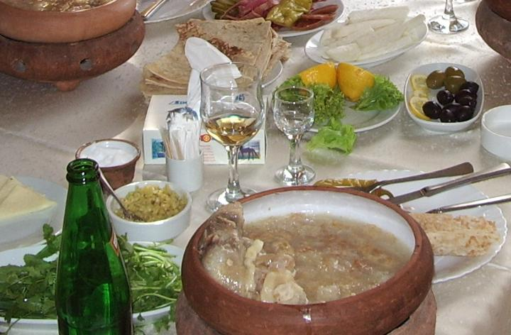 Khash